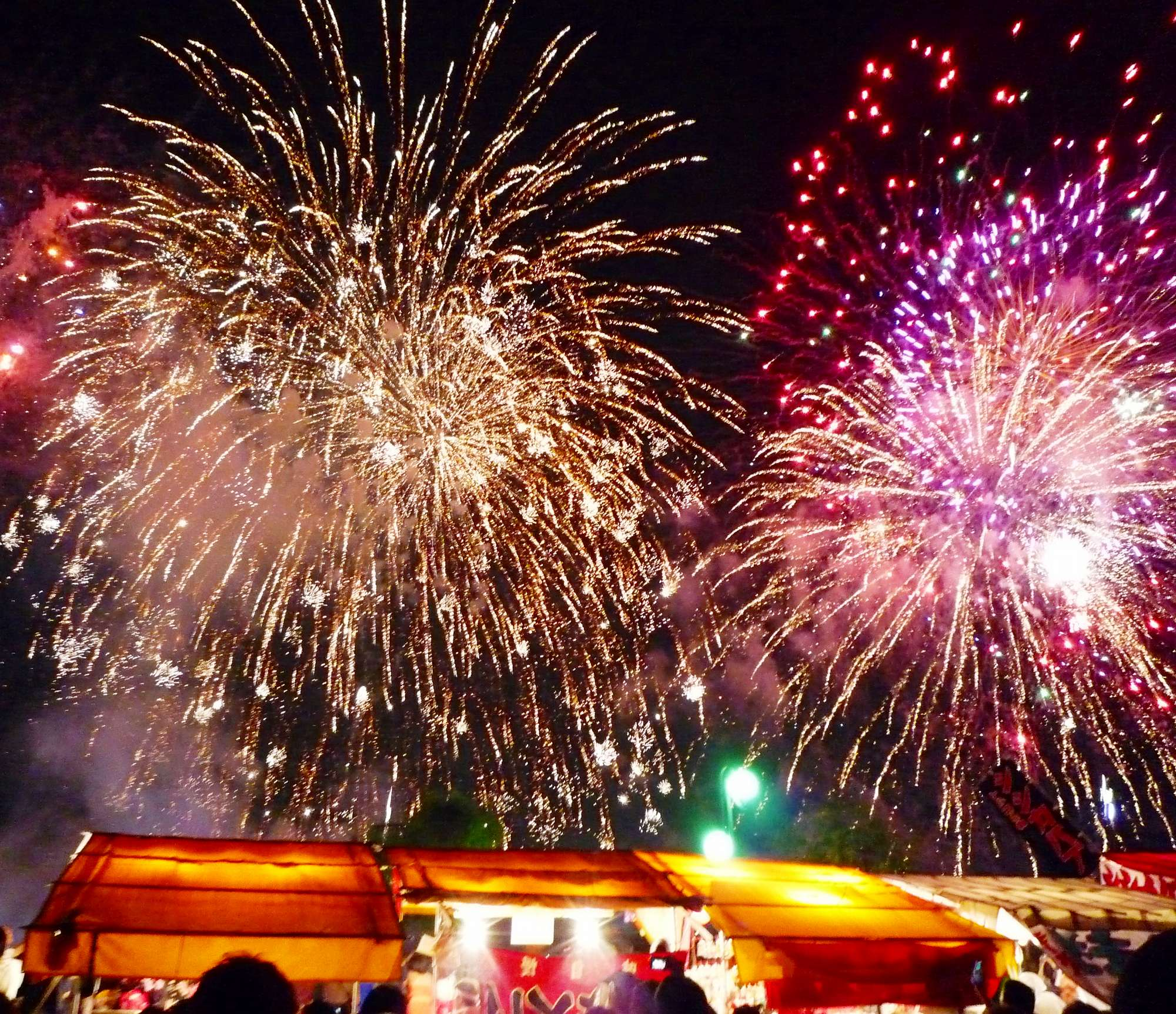 Nishi-Nippon Ohori Fireworks Festival 2009